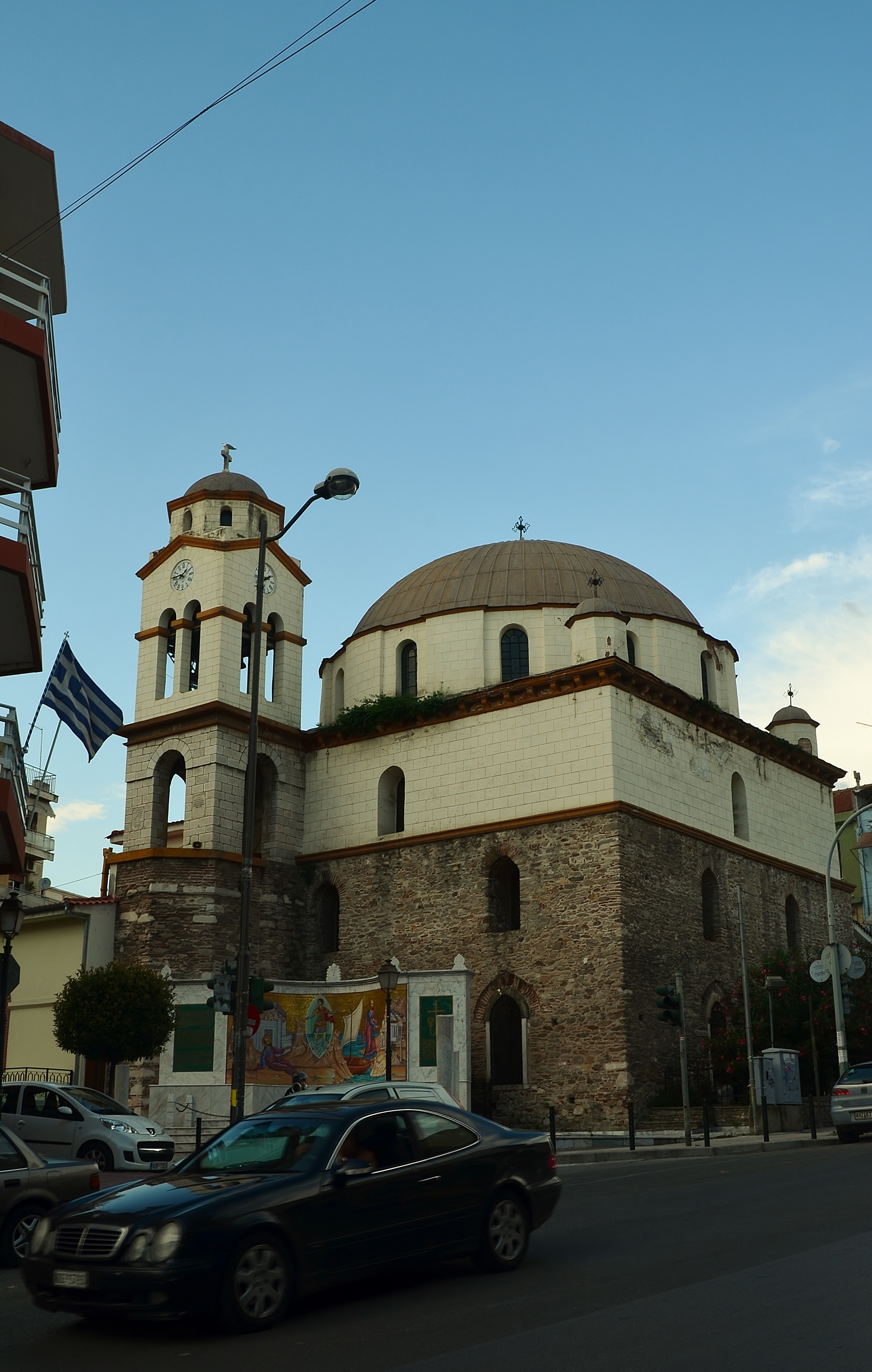 St. Nicholas Church in Kavala